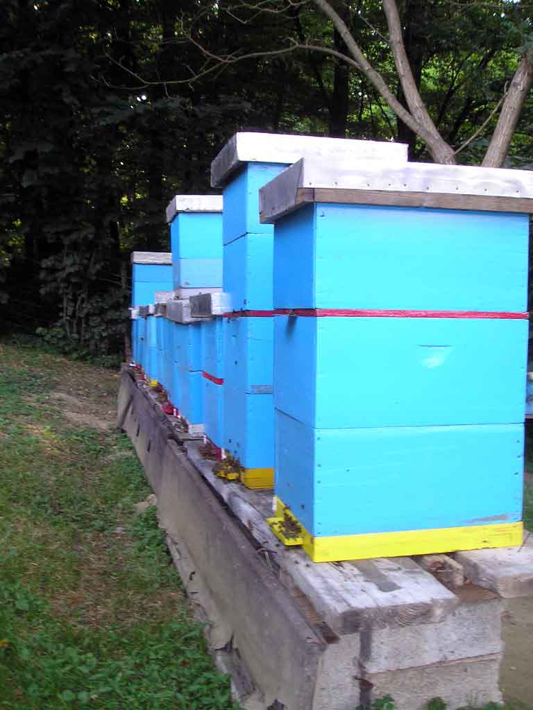 LR bee hives